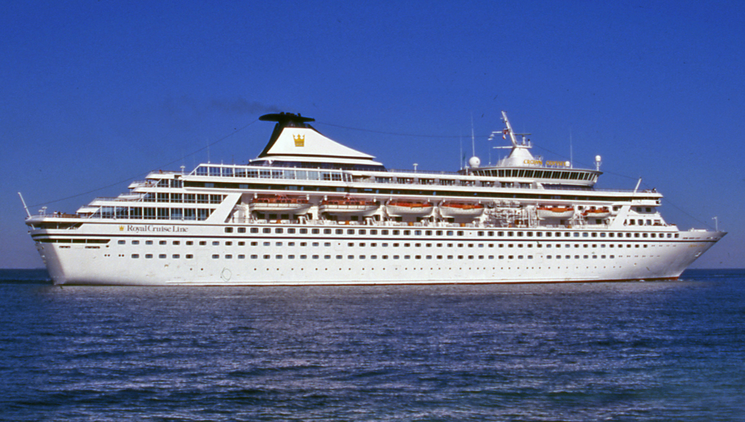 Royal Cruise Line ship in Key West Harbor in February 1995. Photo by Ray Blazevic.